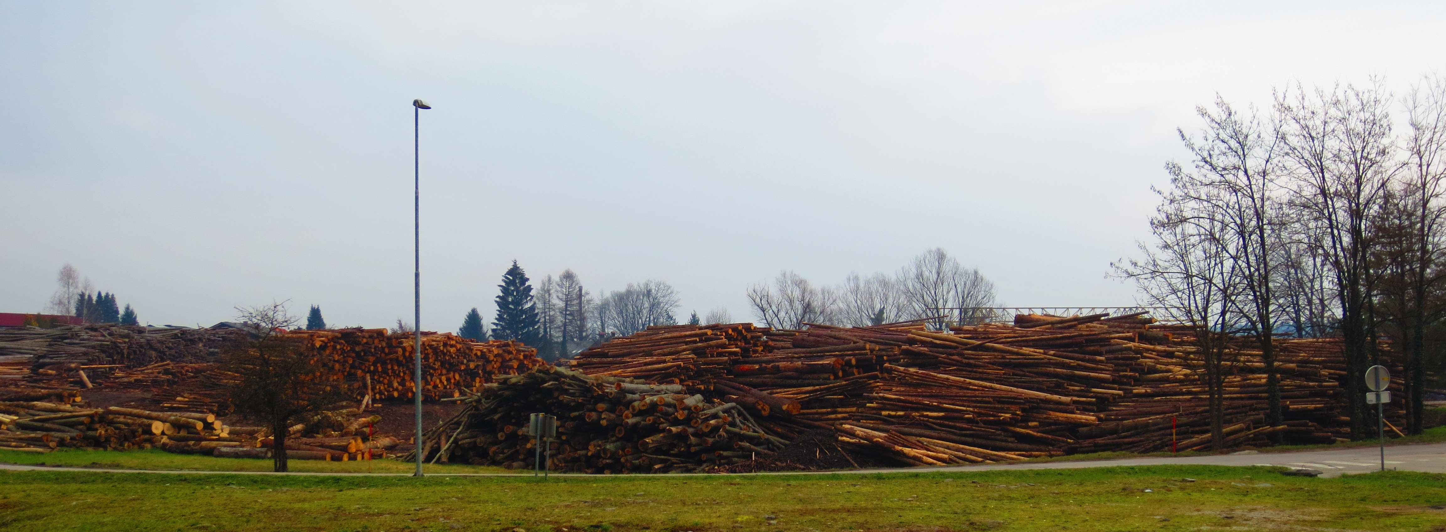 Wooden treasures in Straža